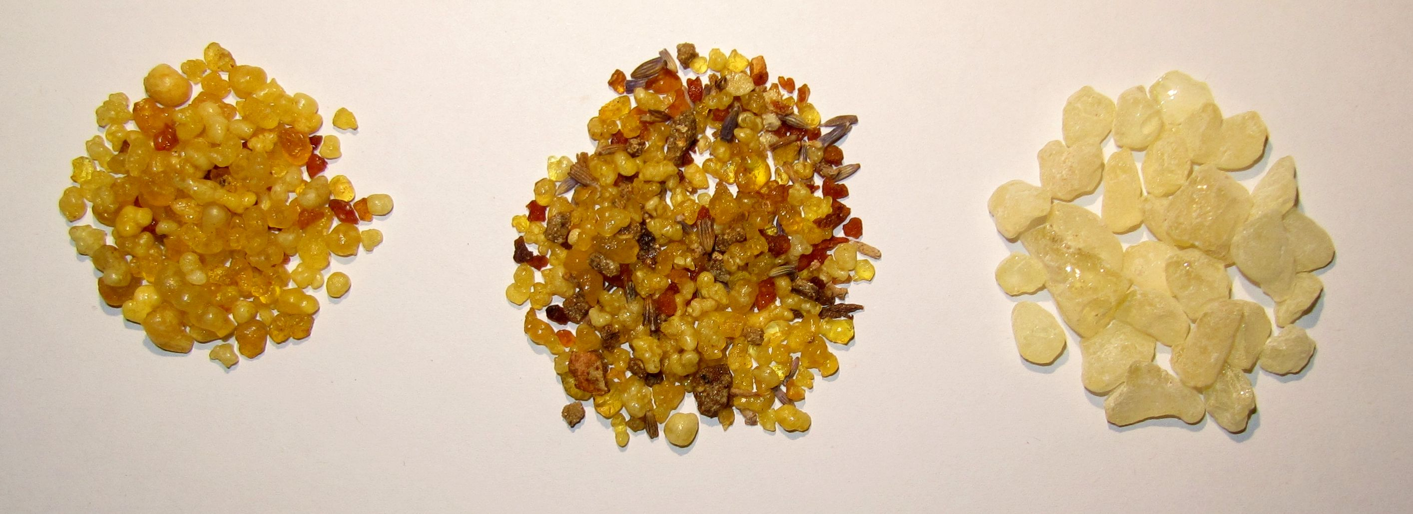 Three kinds of (frank-)incense (boswellia): first harvest, rather dark and small chunks, quite cheap (left); usual cheap mixture with anise and balsam (styrax) for use at church liturgy (center); late harvest, large chunks, nearly clear white, intense scent, very expensive (right).